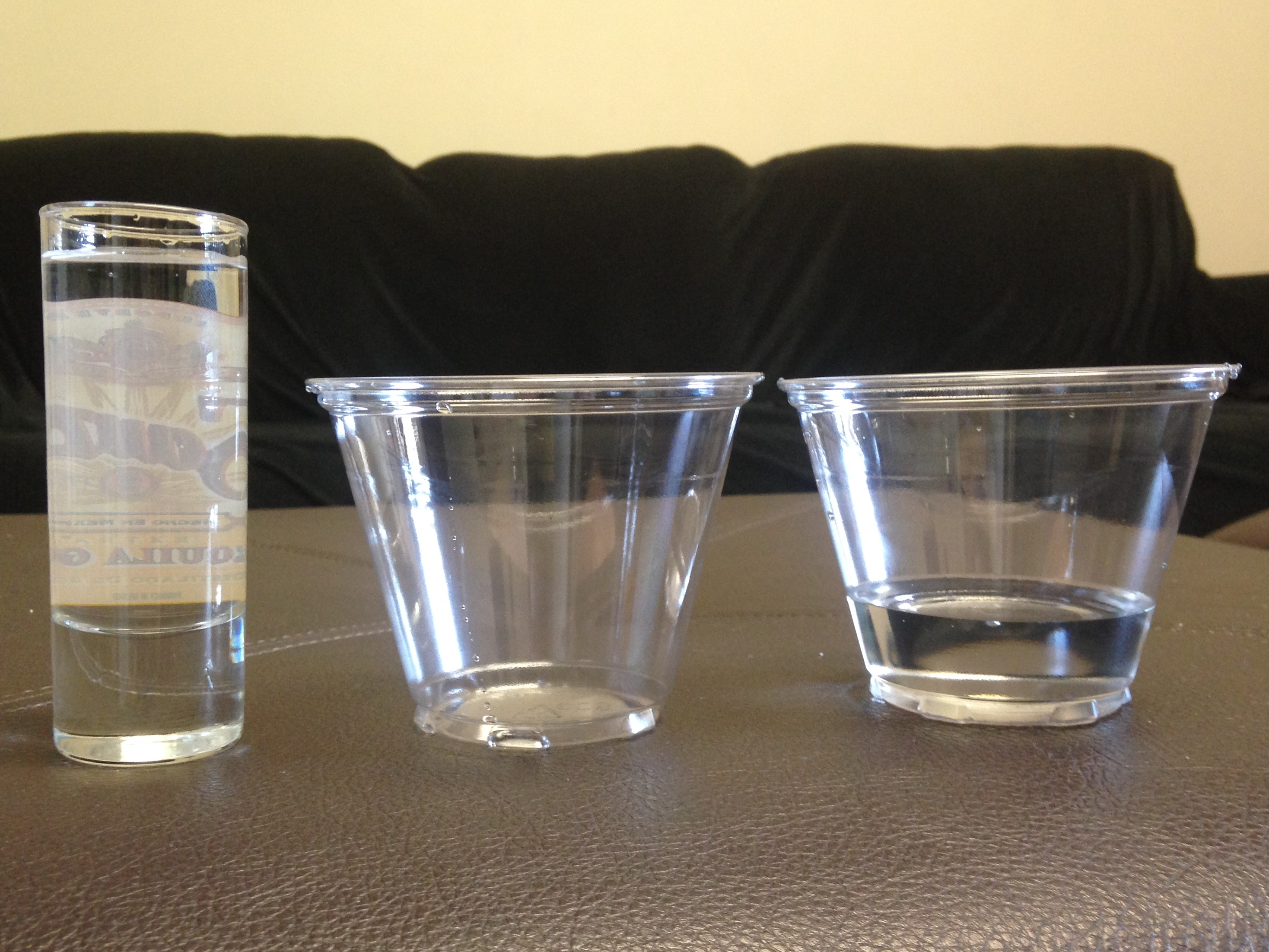 Demonstrating conservation of liquid